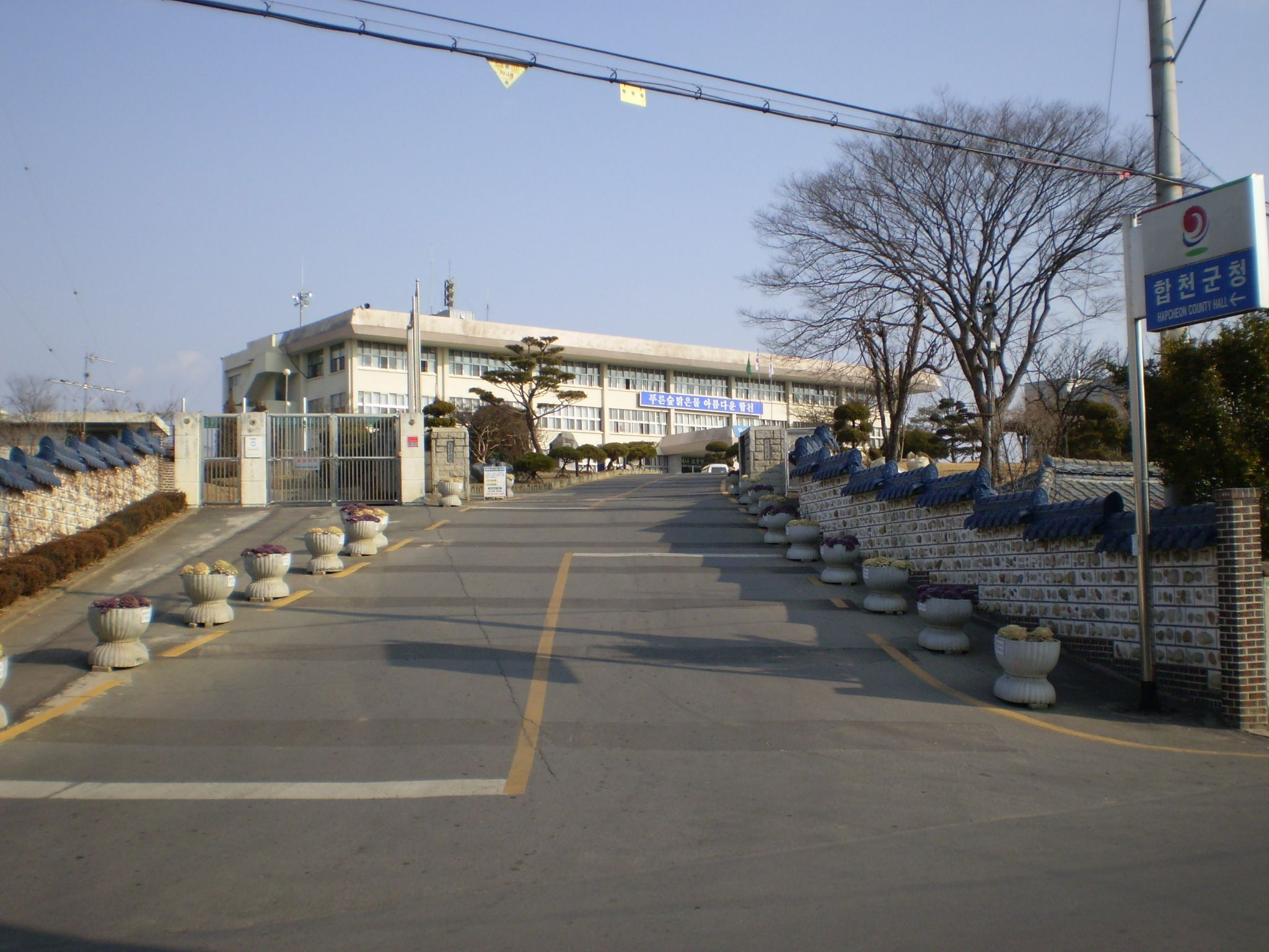 Wide view of the county government building in Hapcheon, Gyeongsangnam-do, South Korea.